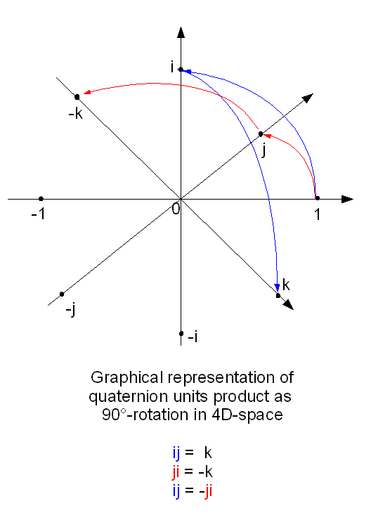 author: Prokop Hapala